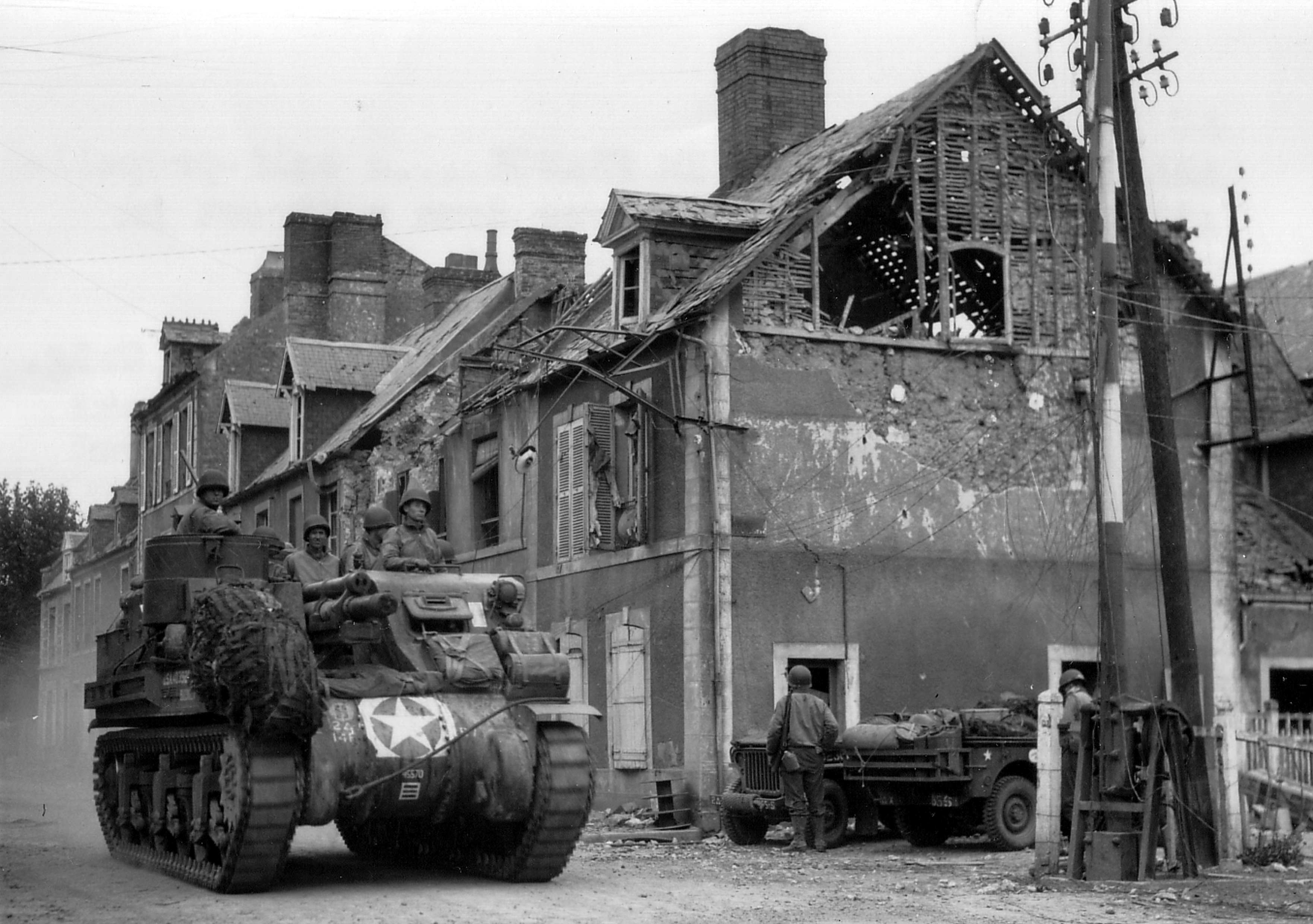 A self-propelled howitzer M7 Priest of the 14th Armored Field Artillery Battalion of the 2nd Armored Division at the intersection of Holgate Street and the railway line Paris-Cherbourg. Carentan, France